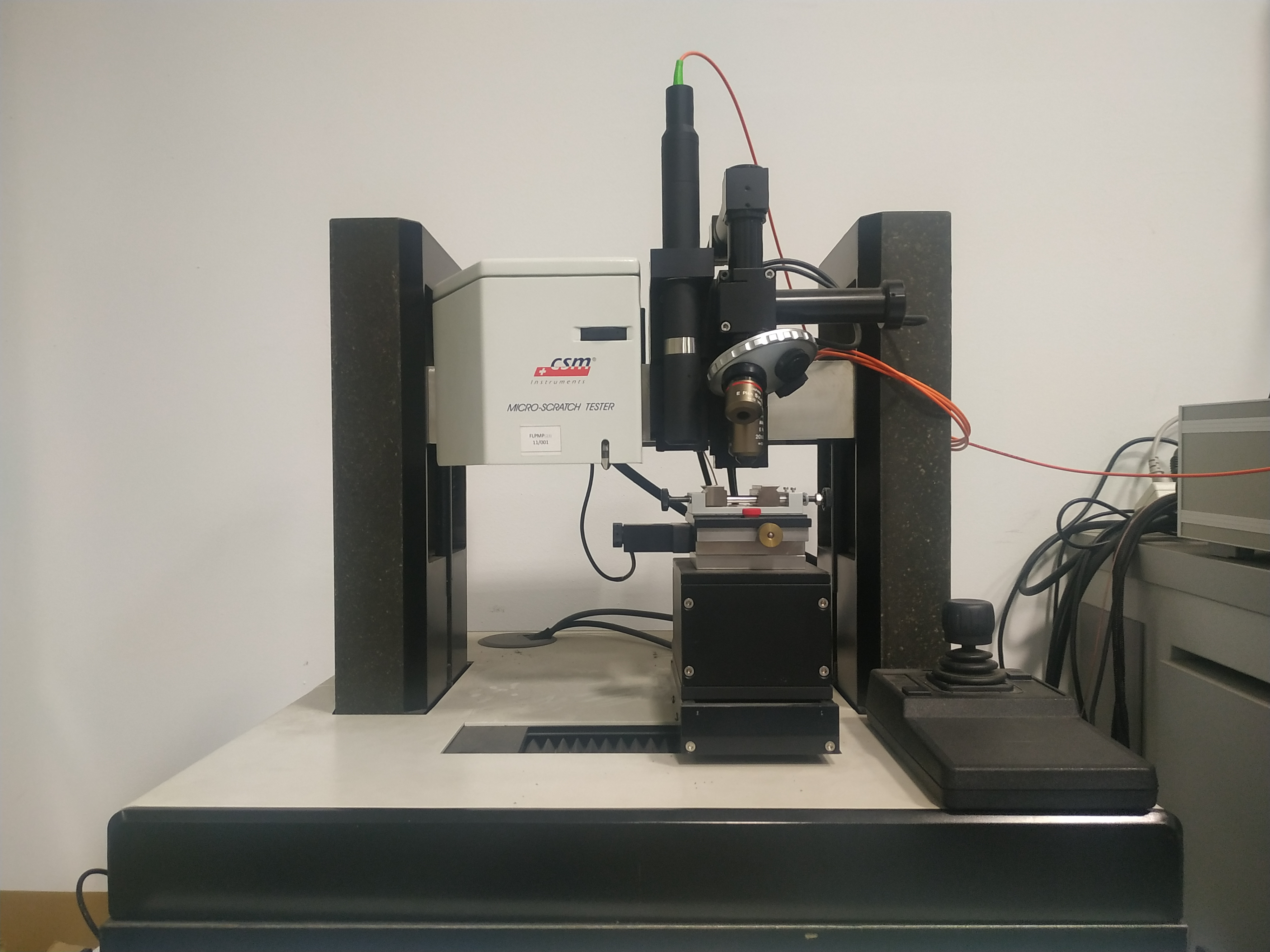 Instrument for the characterization of the surface properties of materials